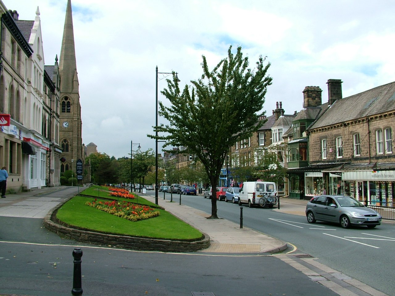 The Grove, Ilkley, West Yorkshire. Sunday 23 September 2007